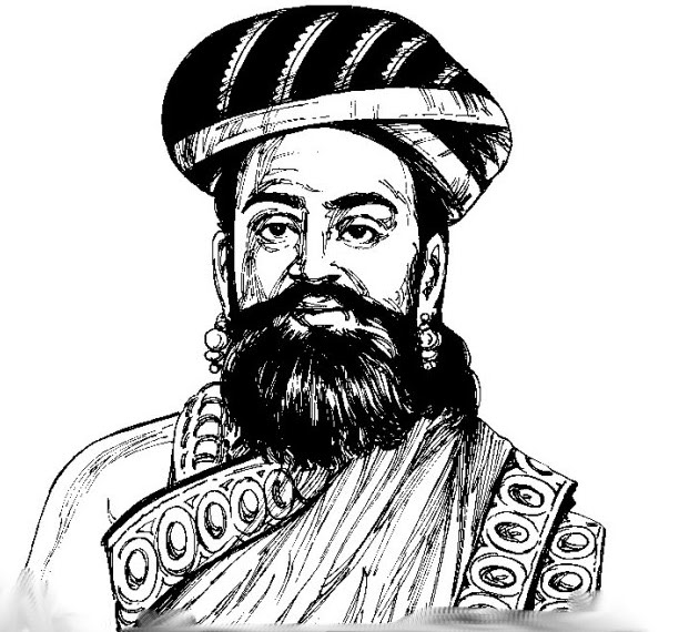 Kambar